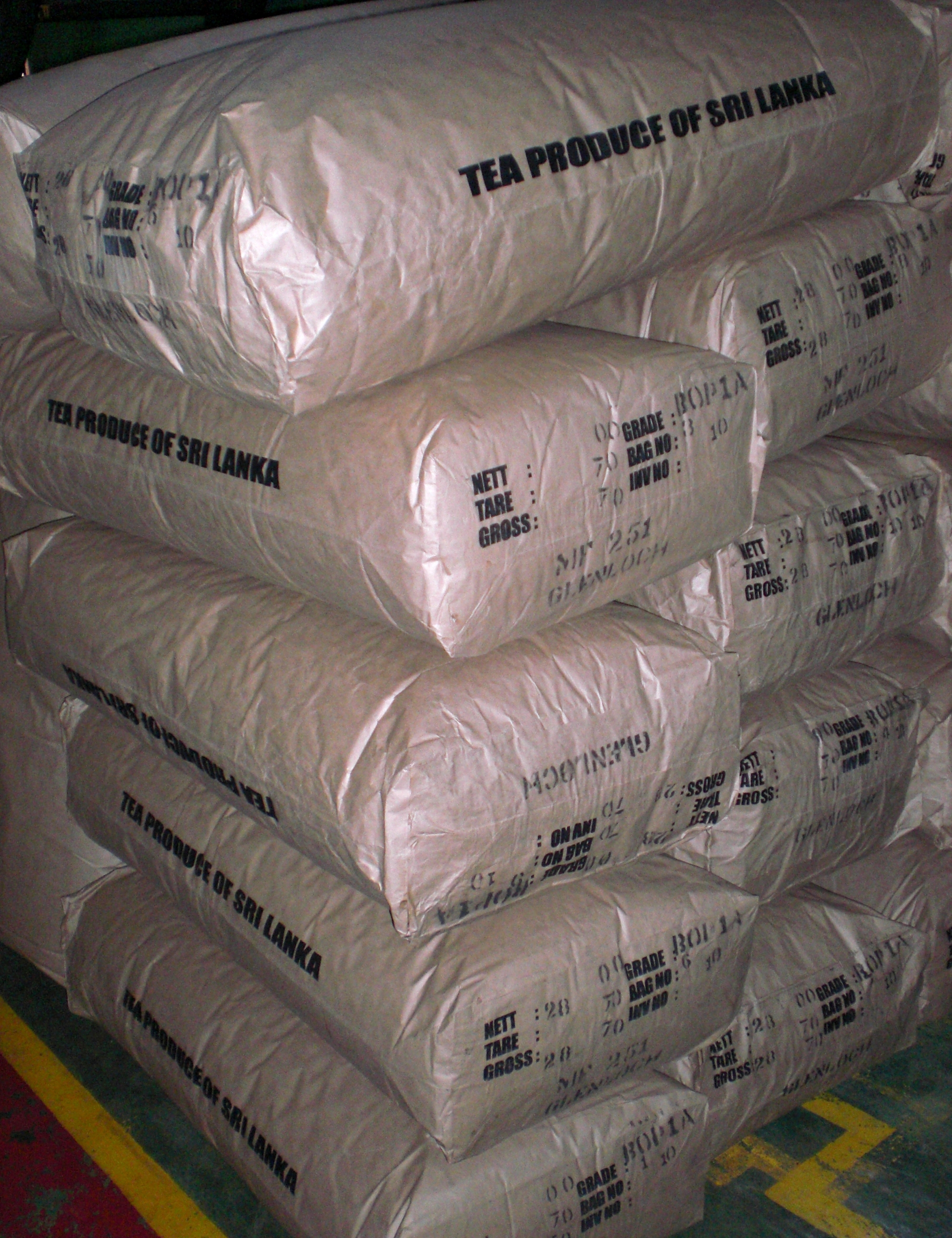 Tea sacks with tea from Sri Lanka ready to be shipped.